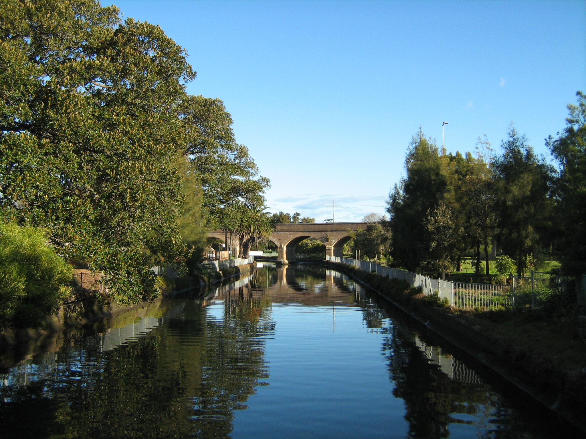 Johnstons Creek looking upstream from the footbridge between Federal and Bicentennial Parks. On the right of the creek is the suburb of Annandale and on the left is Glebe. The brick viaduct in the background formerly carried a goods railway line to Darling Harbour but heavy rail traffic ceased in 1996. The viaduct now carries the Metro Light Rail.